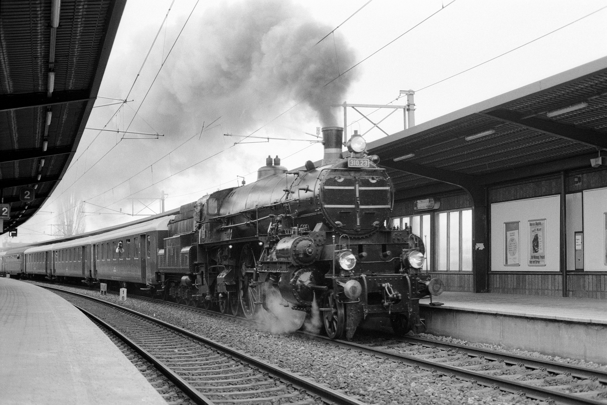 kkStB 310.23 with Christmas special passing Traisengasse station in Vienna